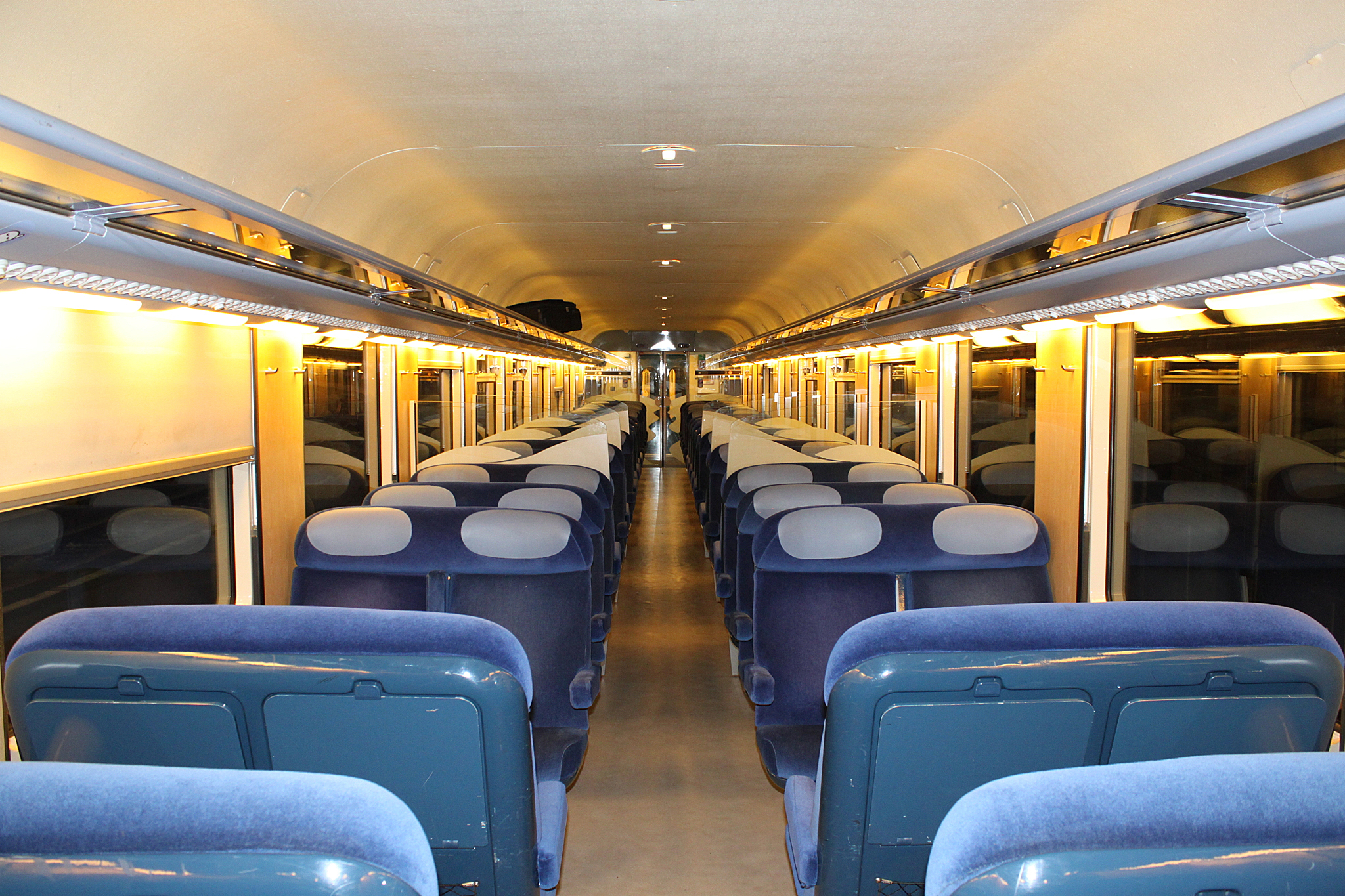 Interior of SNCF 50 87 21-97 582 in the consist of TER200 96204 from Basel SBB to Strasbourg-Ville.